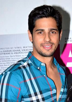 Indian actor Sidharth Malhotra at a promotional event of his film Hasee Toh Phasee (2014)